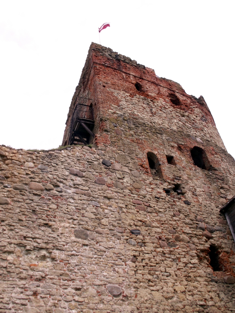 Bauska Castle